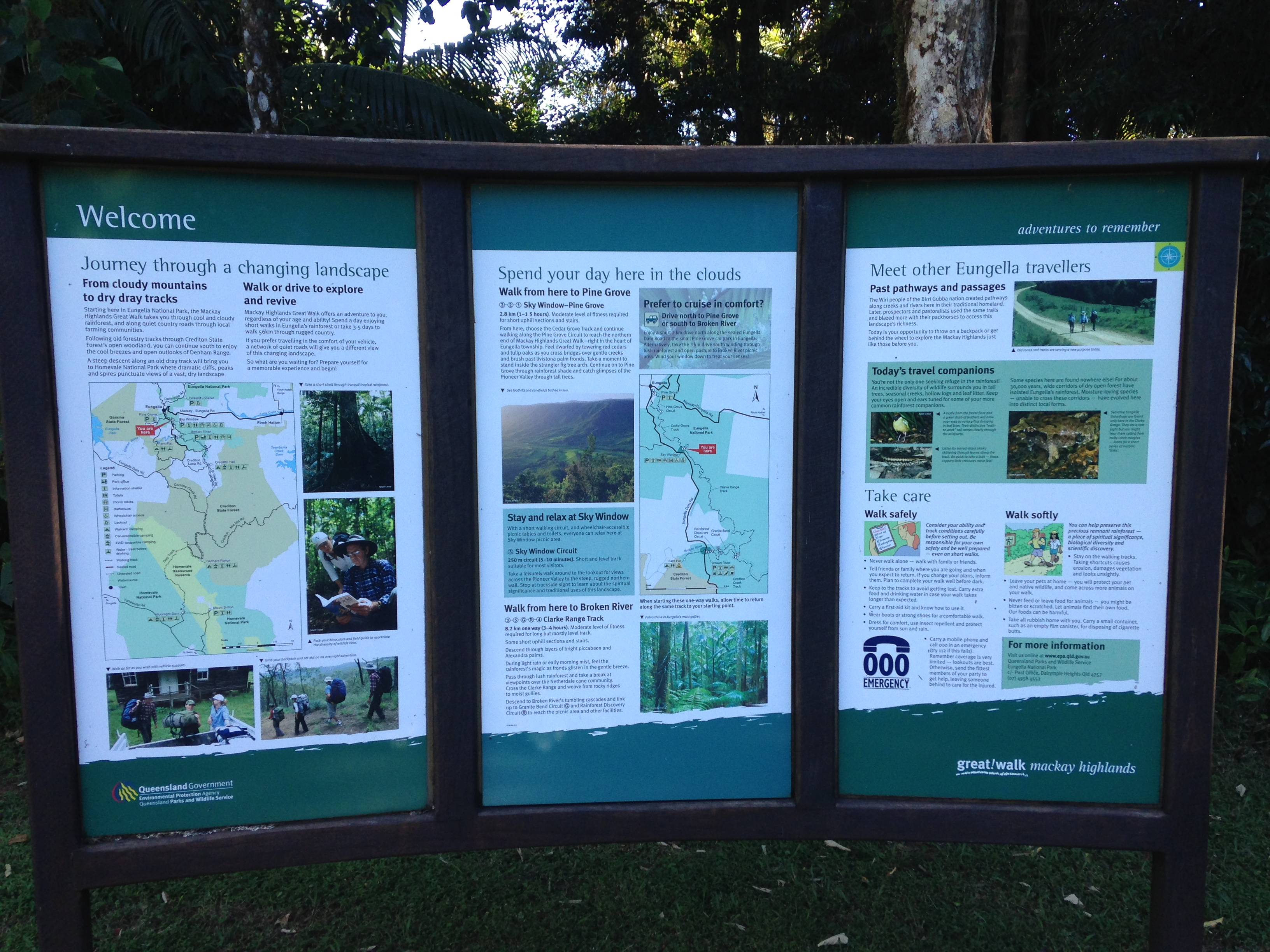 Interpretive signage helps visitors understand the ecology and features of Eungella National Park